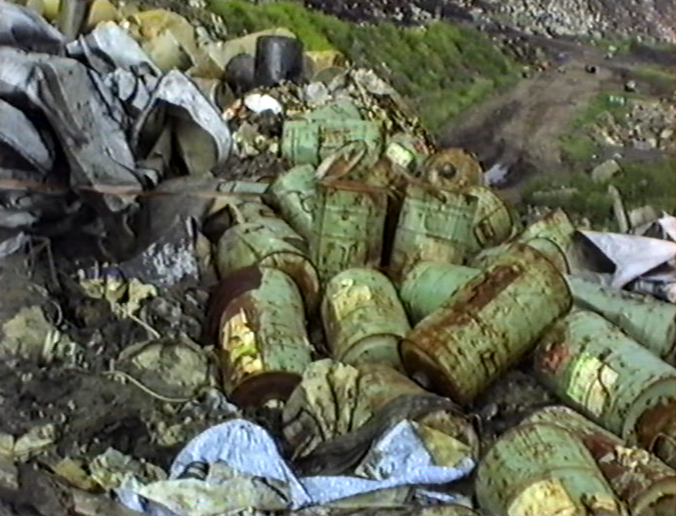 Containers for storage and transport of chemical products are scattered around at "Freiheit III" waste dump at Bitterfeld, then German Democratic Republic, in 1988